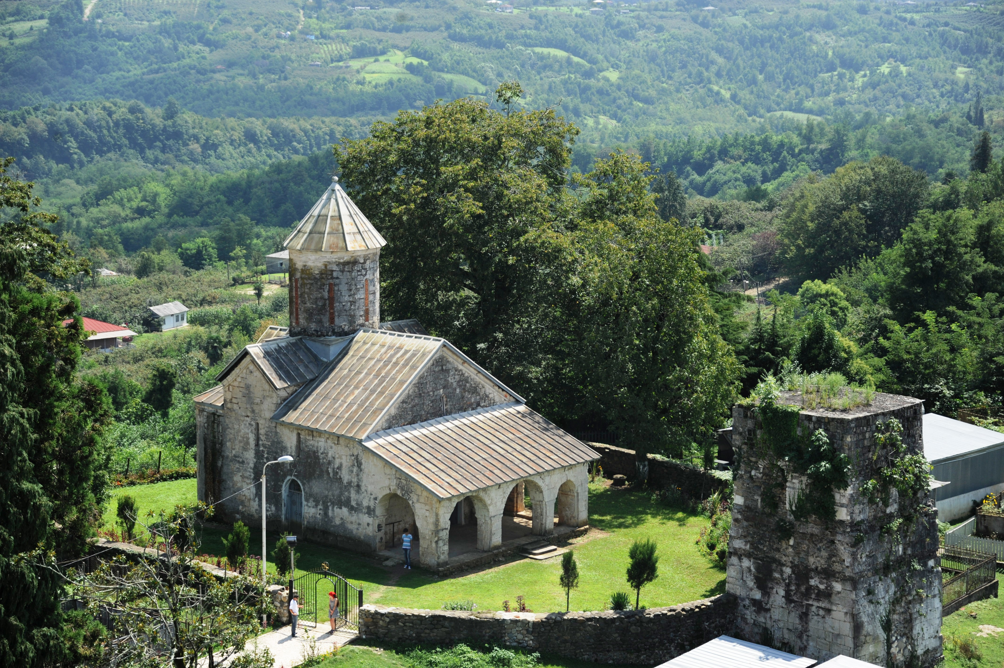 church in